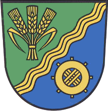 Coat of arms of Ballstädt